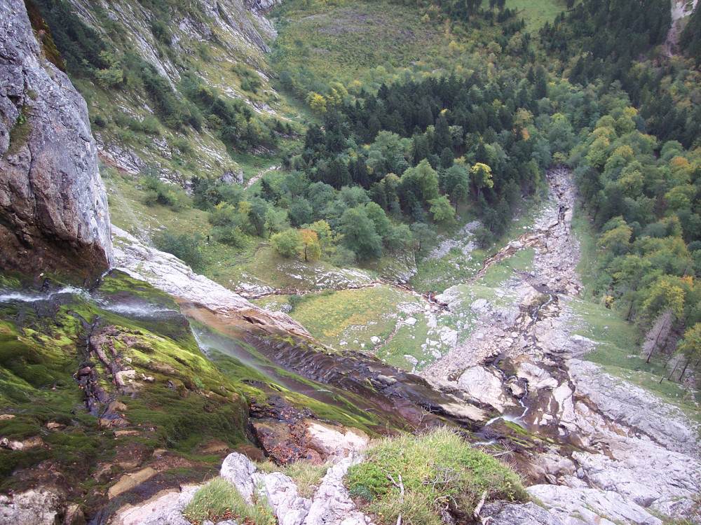 Röthbachfall, October 12th, low water level